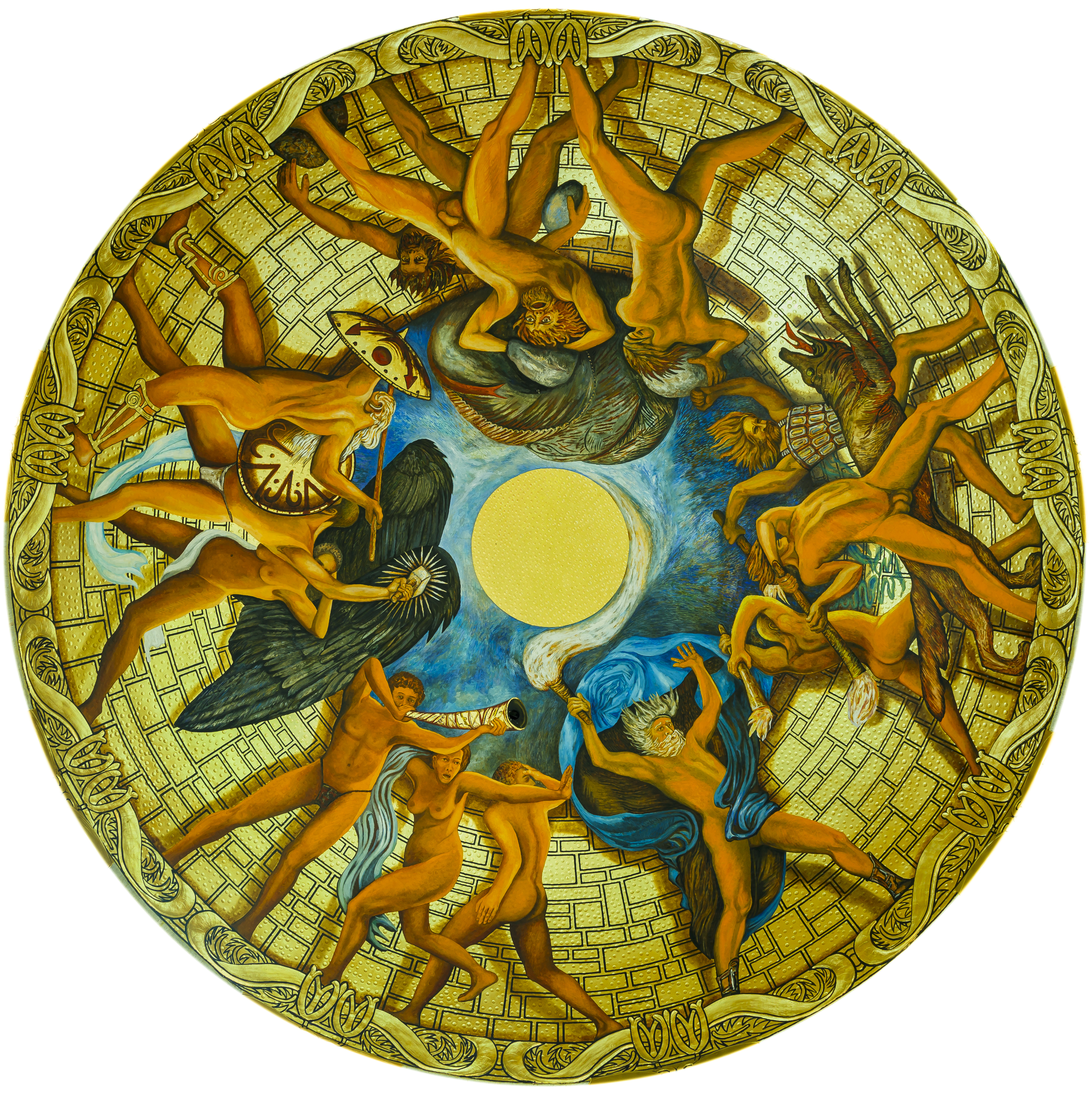 Fresco at the cupola of Burschenschaftsdenkmal in Eisenach